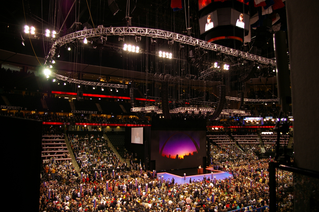 Sarah Palin speaking at the w:2008 Republican National Convention in Saint Paul, Minnesota